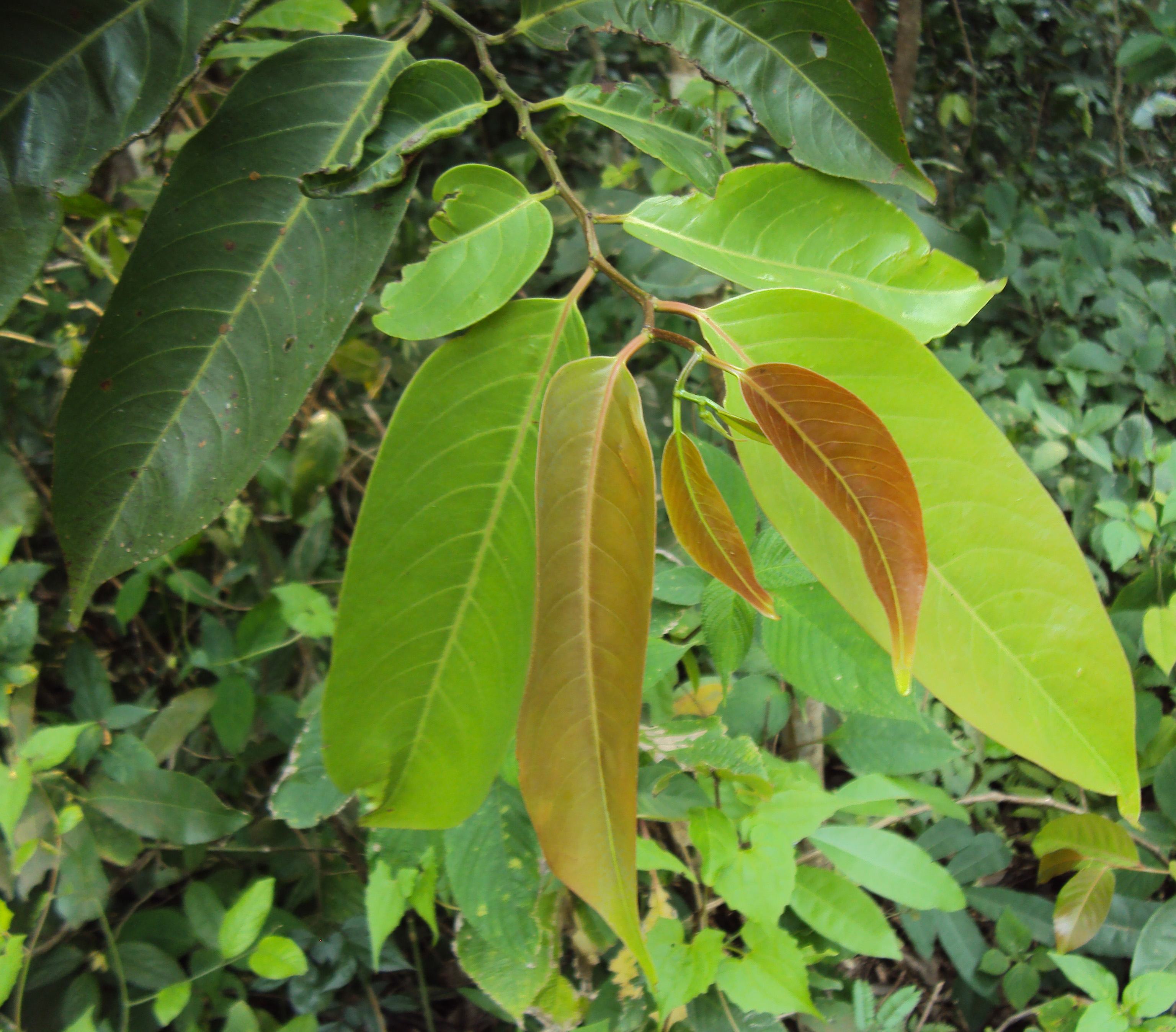 Diospyros candolleana